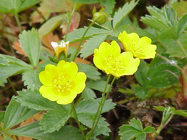 Species: Potentilla aurea Family: Rosaceae Image No. 4